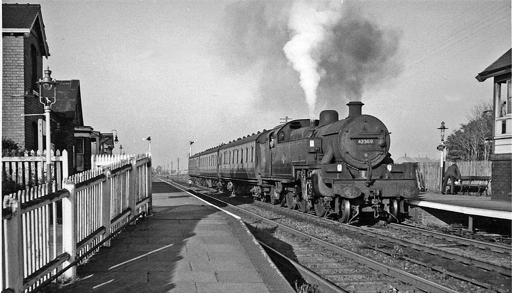 Banks Station, with Preston - Southport train. View eastwards, towards Preston; ex-Lancashire & Yorkshire (West Lancashire) Preston - Southport line, which was closed with the station on 7/9/64 - less than two weeks after this photograph. The train is the 17.59 from Preston, headed by LMS Fowler 2-6-4T No. 42369.